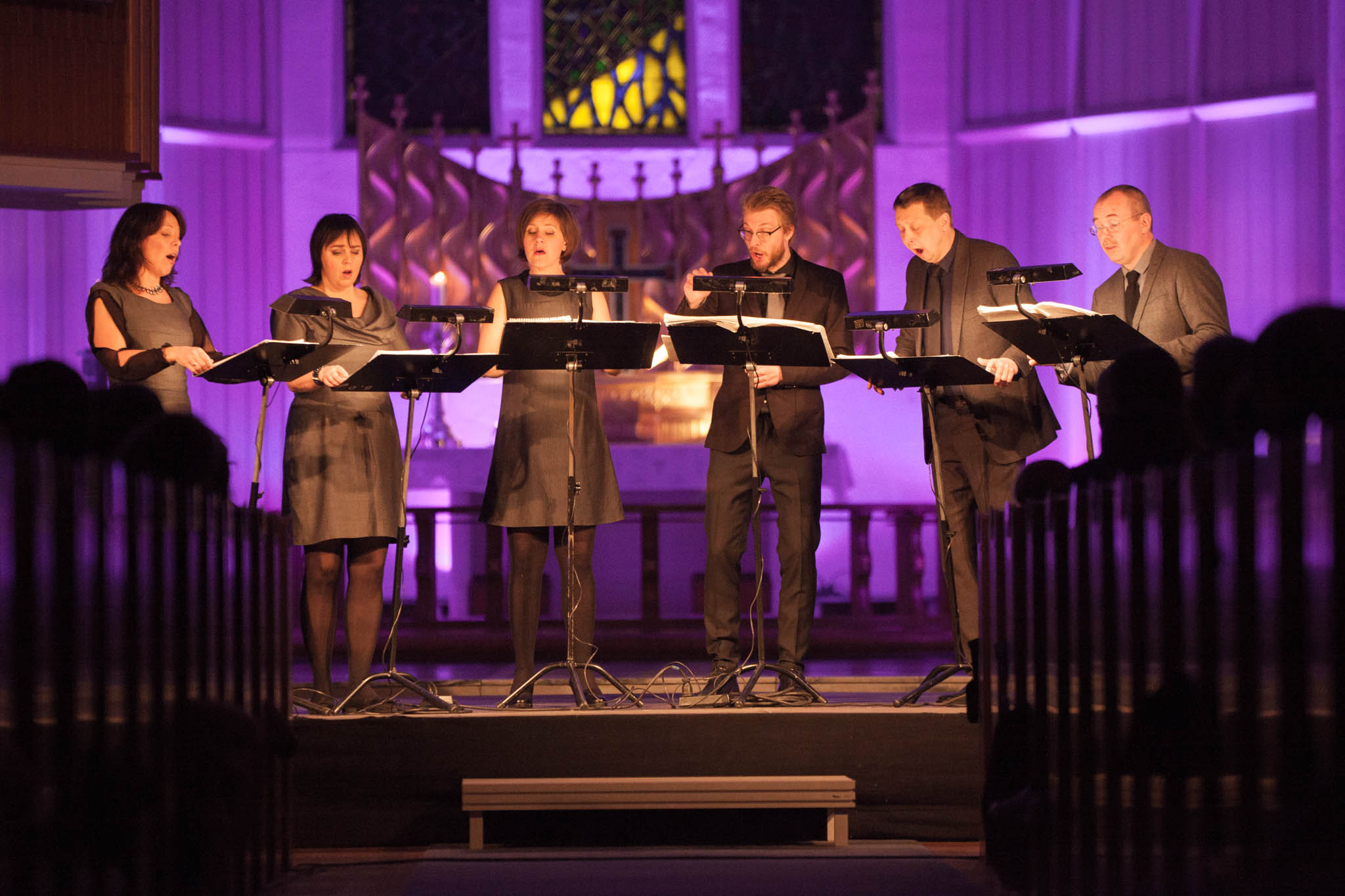 Nordic Voices at Nordland Music Festival 2014 in Bodø, NorwayNorsk bokmål: Nordic Voices under Nordland musikkfestuke i Bodø domkirke 2014